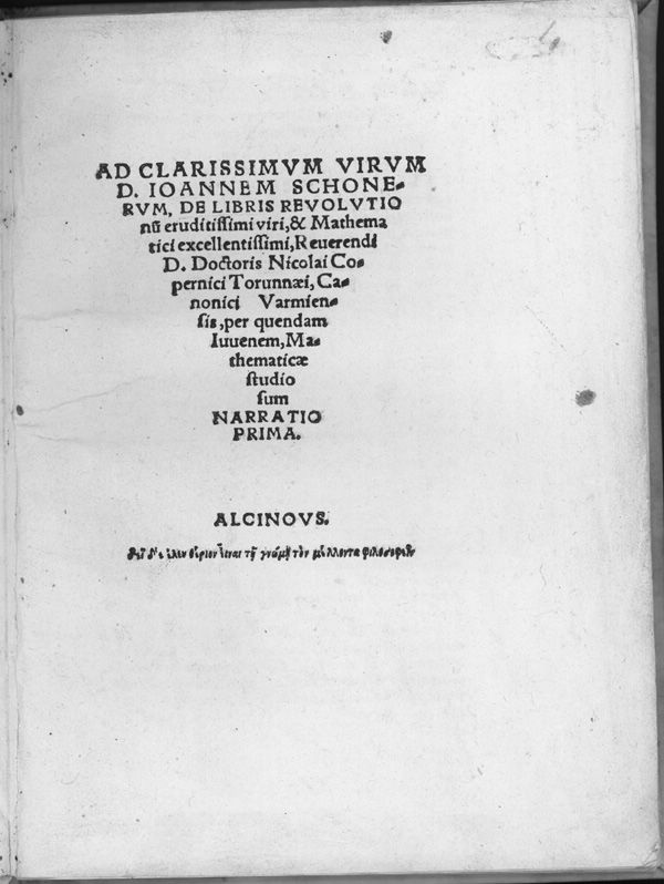 Cover of Rheticus' "De libris revolutionum Copernici Narratio Prima Excusum Gedani", (1540). The first published account of Nicolaus Copernicus' heliocentric theory.